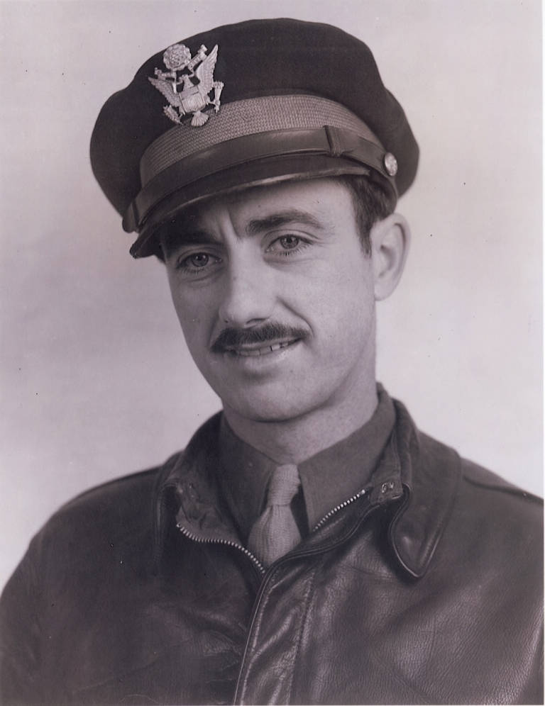 1st Lieutenant Vermont Garrison during World War II, as part of the 336th Fighter Squadron